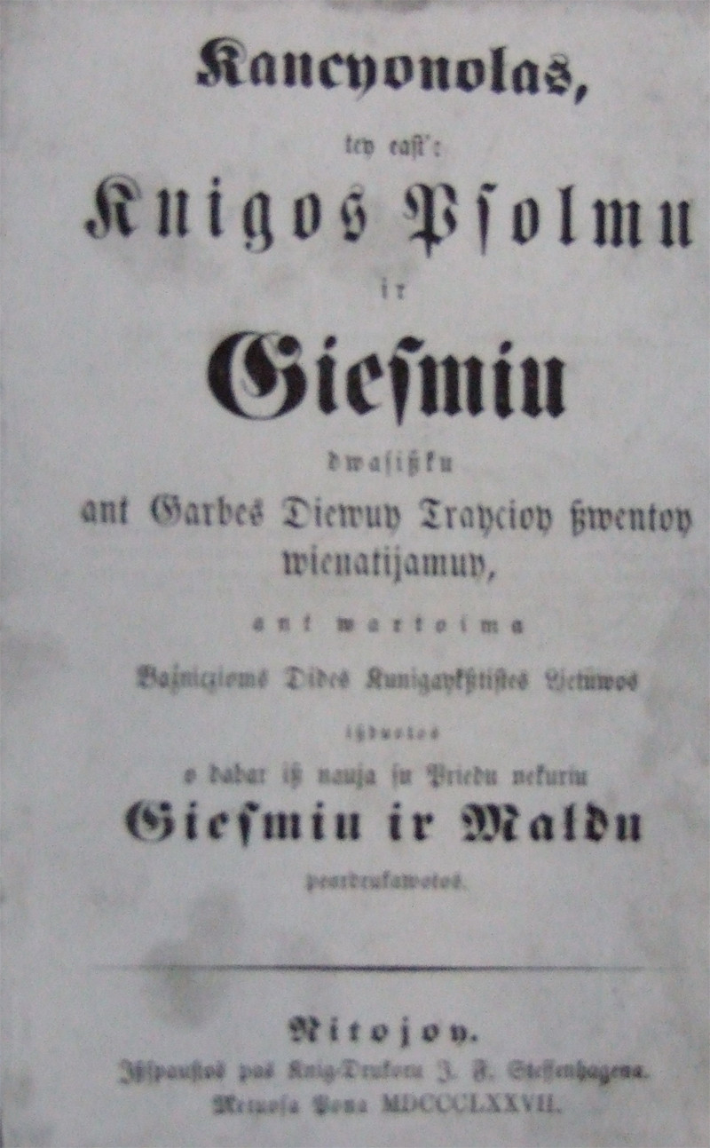 Kancionalas (1877), during Lithuanian press ban due to censors mistake book was released in 10 000 copies.